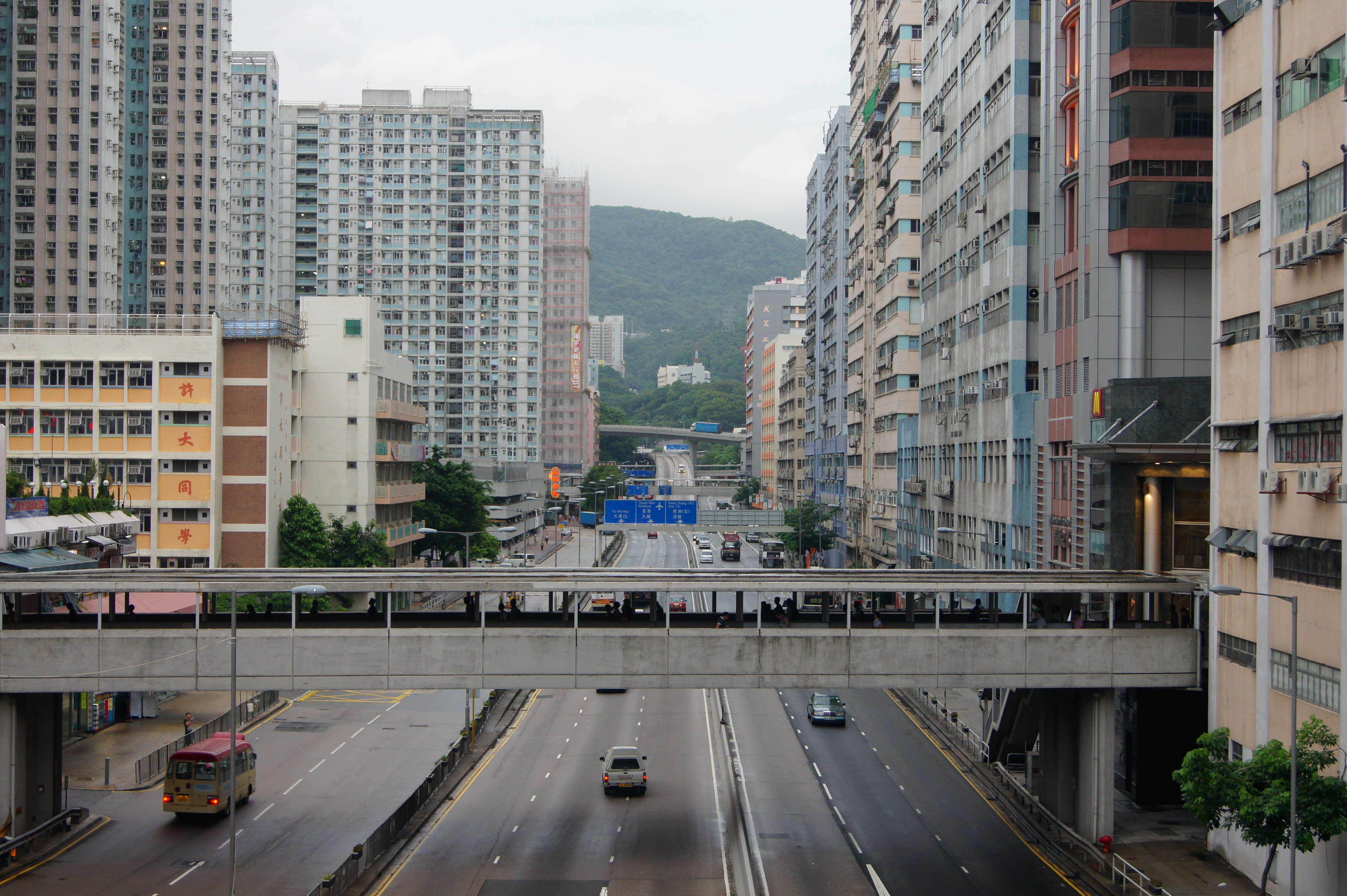 Kwai Chung Road (near MTR Kwai Hing Station)